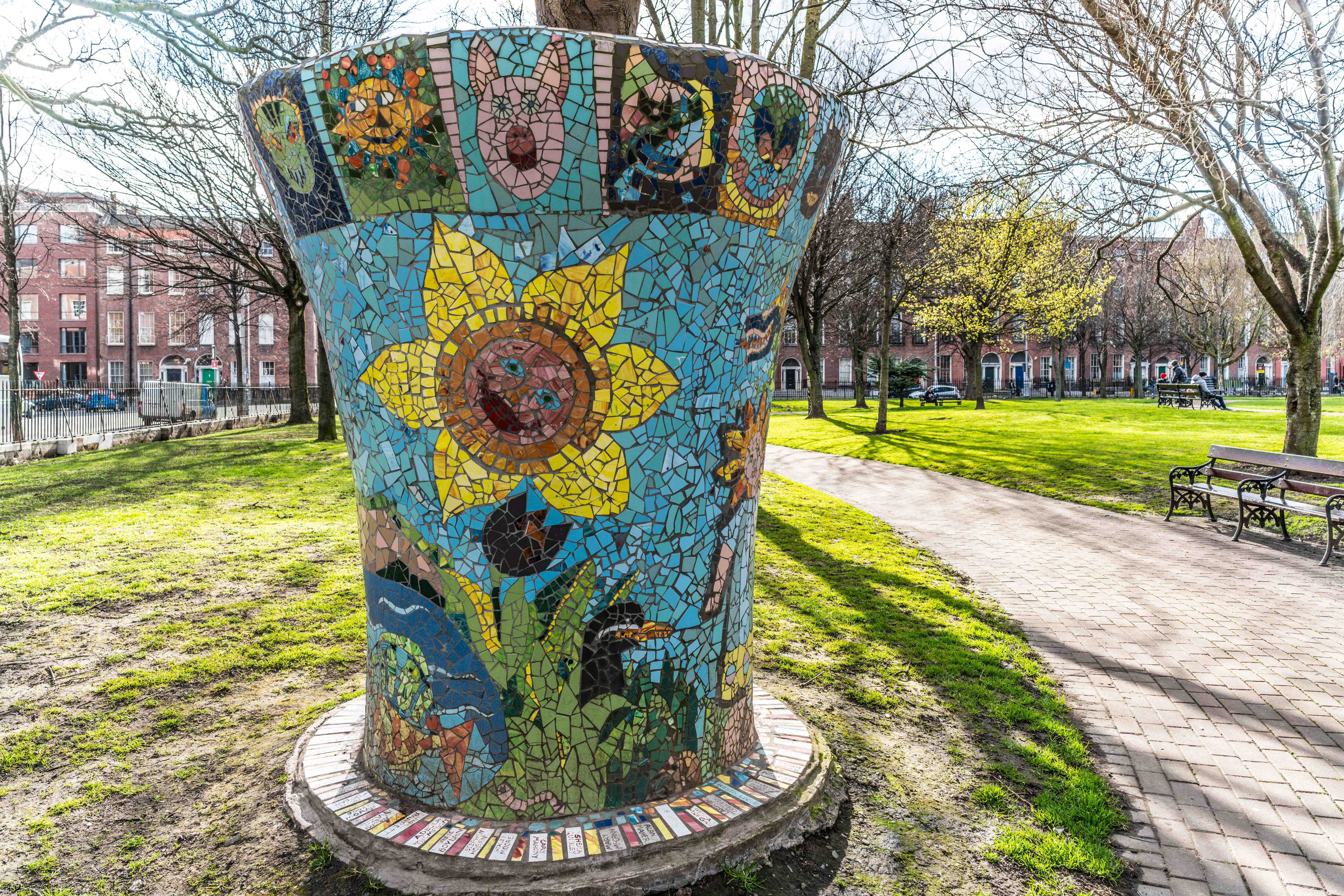 The Pavee Point Traveller & Roma Centre, which is based in the Free Church nearby on Great Charles Street, commissioned two concrete tree surrounds that are decorated in mosaic depictions of traveller life. The themes were developed and the mosaics undertaken during workshops with the artist.